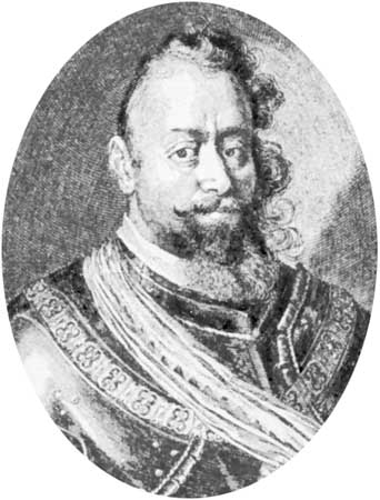 Sigismund Báthory (1572-1613)